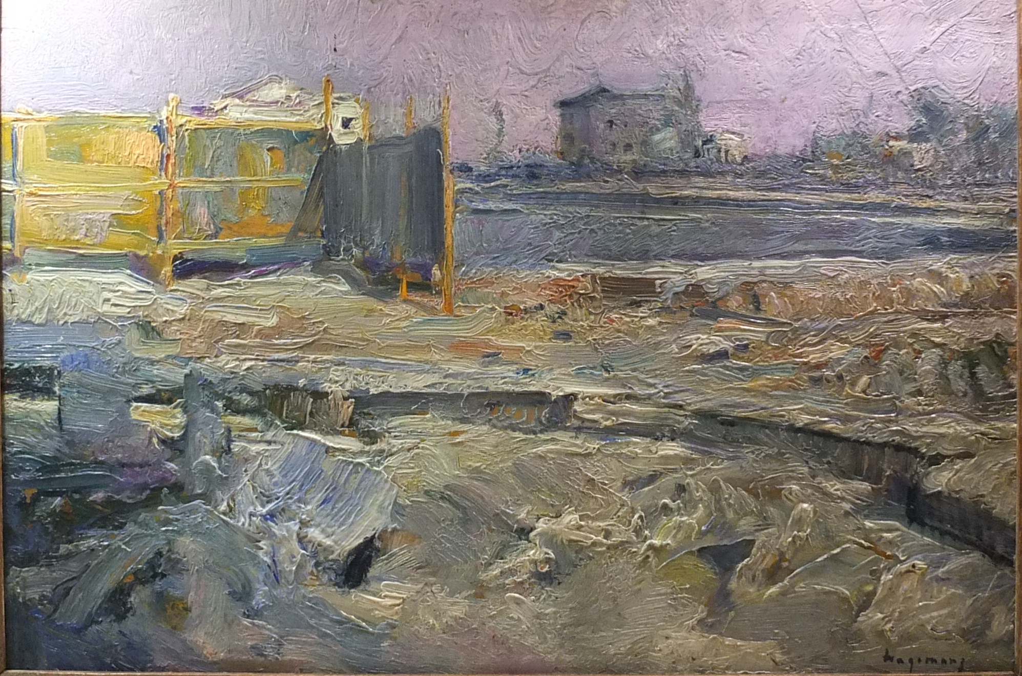 Maurice Wagemans (1877-1927) , Trench, second line, Nieuwpoort, ca. 1916-18. Royal Military Museum, Brussels.